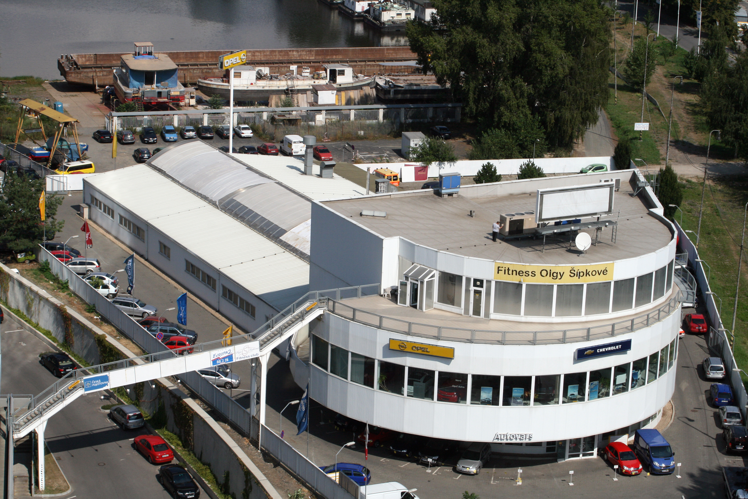 Building of fitness centrum of Olga Šípková in Holešovice, Prague from the top of Lighthouse Vltava Waterfront Towers, Czech Republic